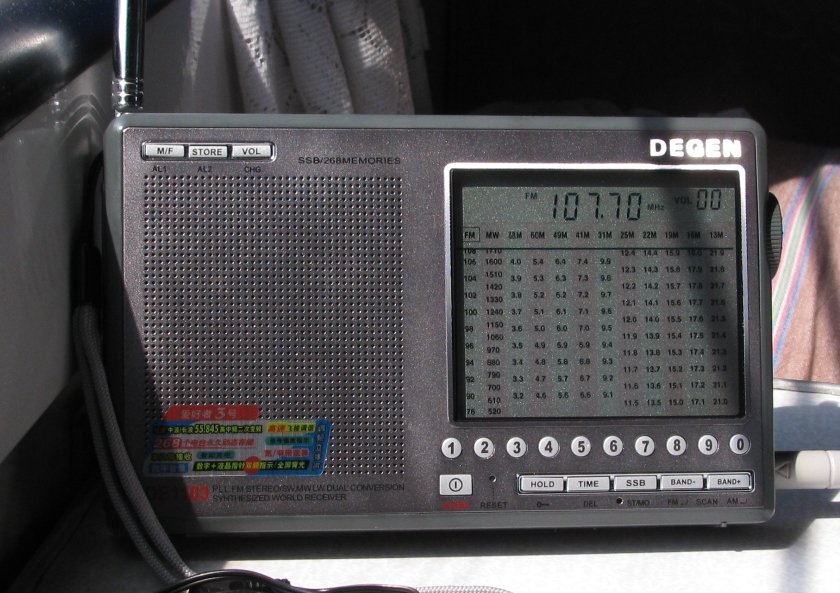 DEGEN DE1103 MULTIBAND FM/AM/SW DIGITAL RADIO